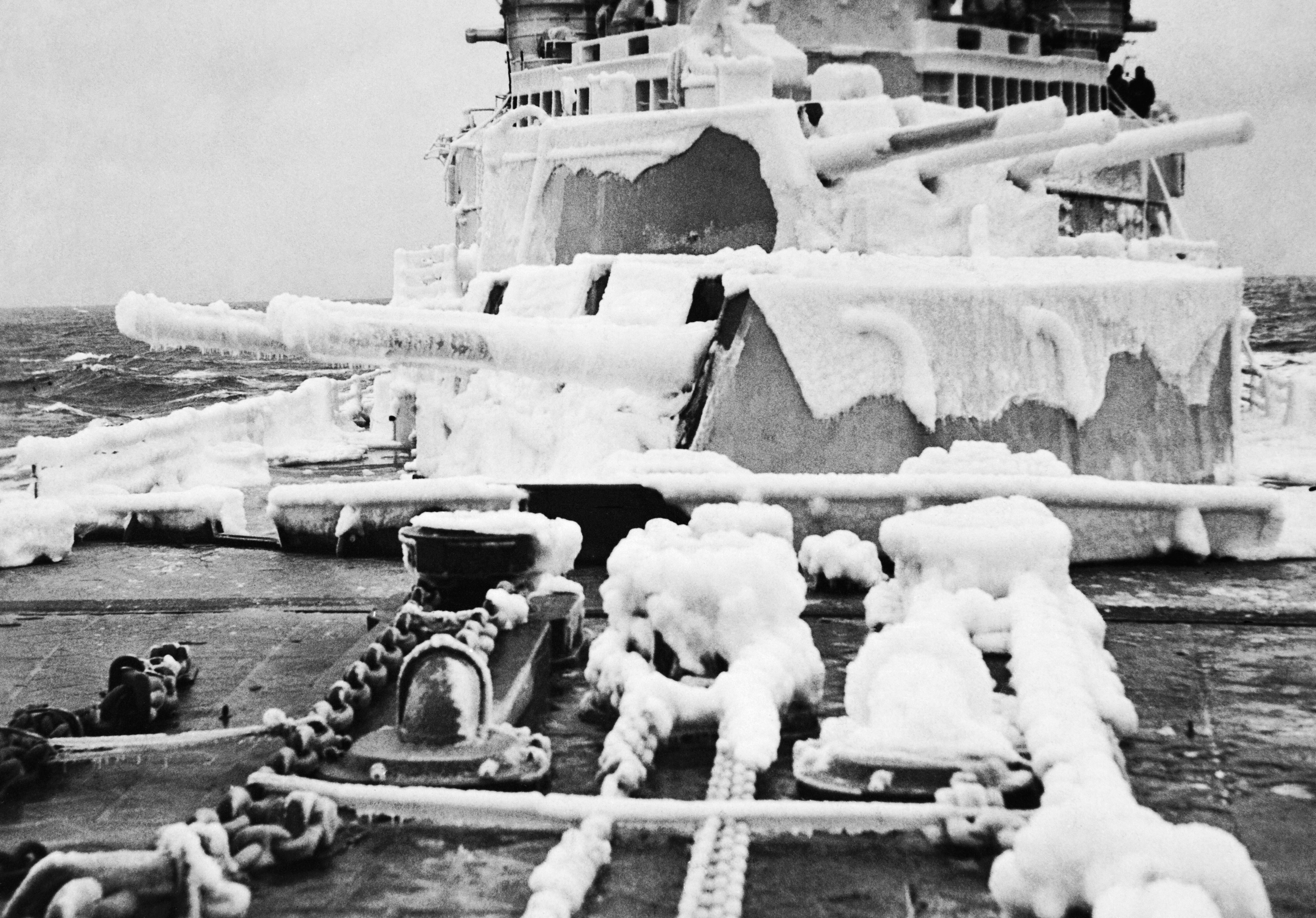 HMS Belfast on Winter Duty in Northern Waters during the Winter 1942-1943 Ice forming on the forecastle and 'A' and 'B' turrets of HMS BELFAST, November 1943.